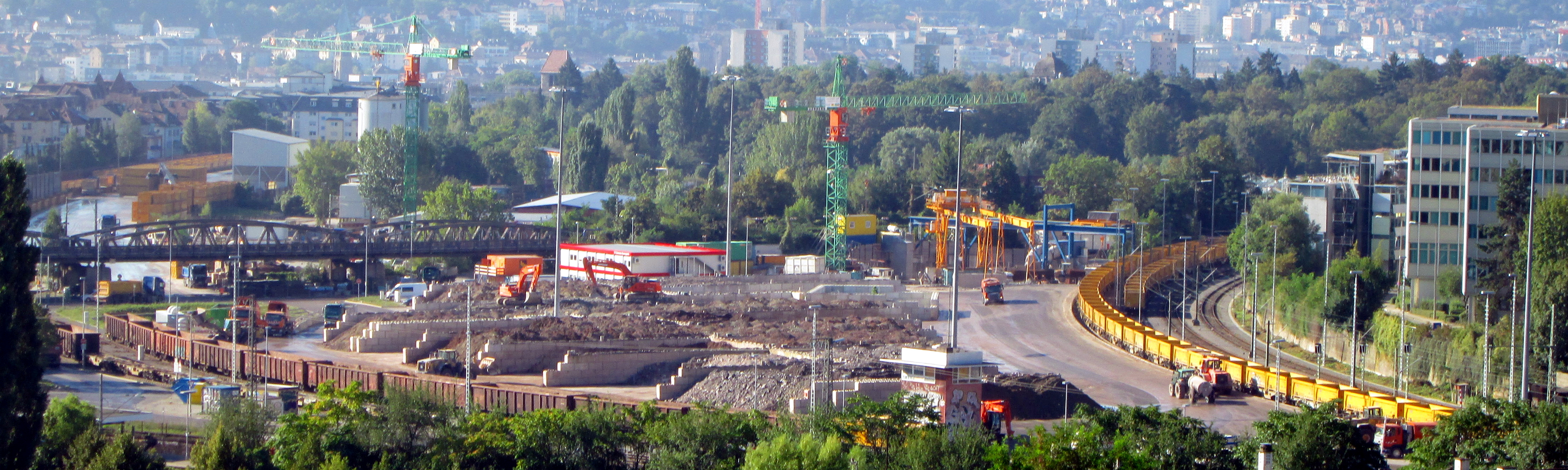 Logistics zone for the construction works of Stuttgart 21, near Stuttgart North station. View from Bastion Leibfried.